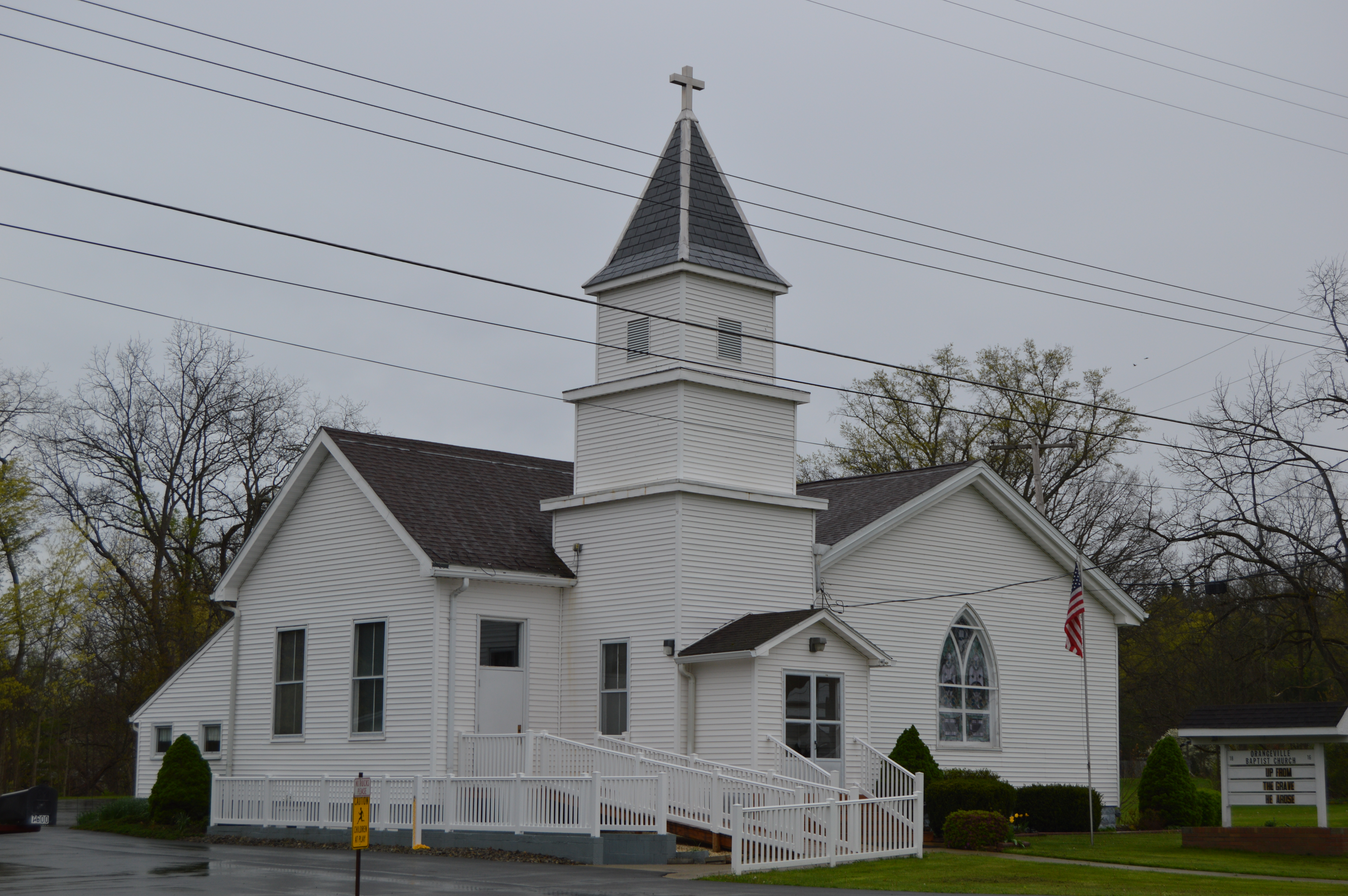 Front and northern side of Orangeville Baptist Church, located on the Pennsylvania side of the Ohio state line road adjacent to Orangeville in South Pymatuning Township, Mercer County, Pennsylvania, United States.